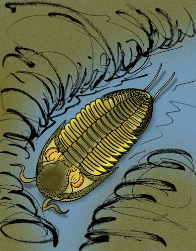 Reconstruction of the proetid trilobite, Paladin morrowensis, a deepwater-dweller from Lower to Middle Carboniferous marine strata in what is now Texas.